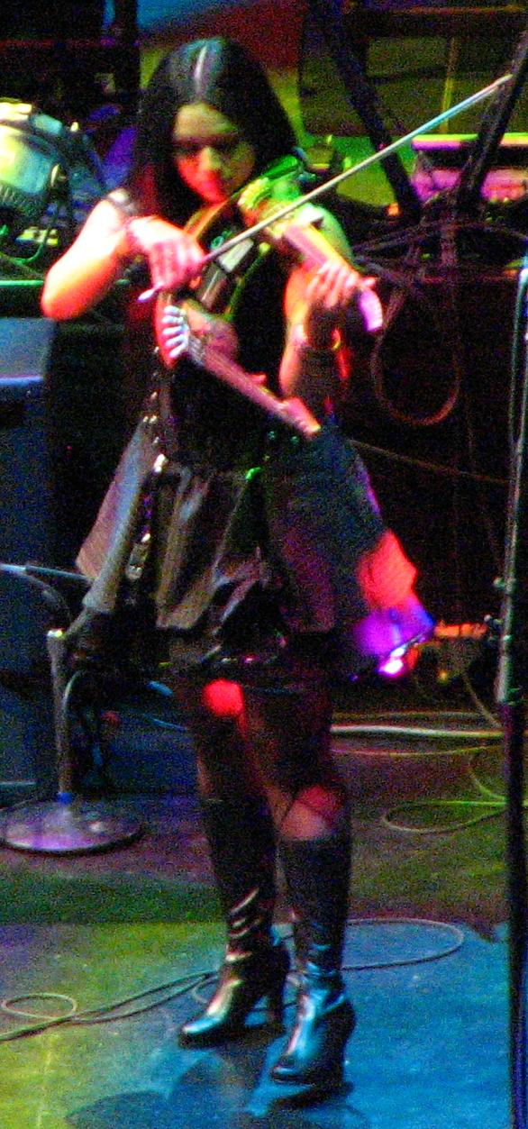 Violinist Gingger Shankar performing with The Smashing Pumpkins for their 20th anniversary tour. (Cropped from original photo.)